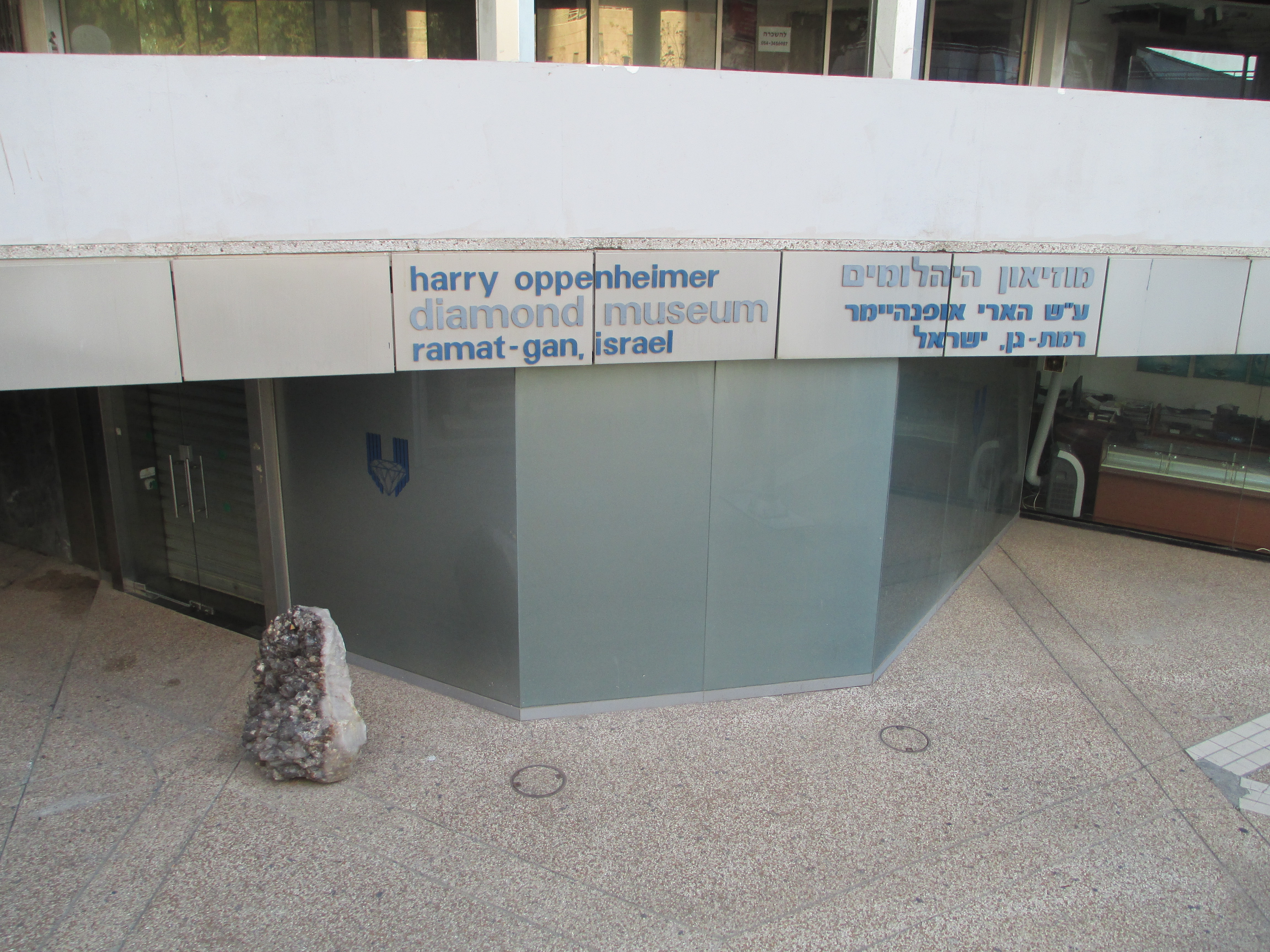 Diamond Museum in Ramat Gan